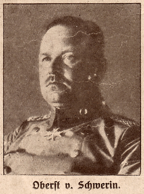 Colonel Detlof von Schwerin